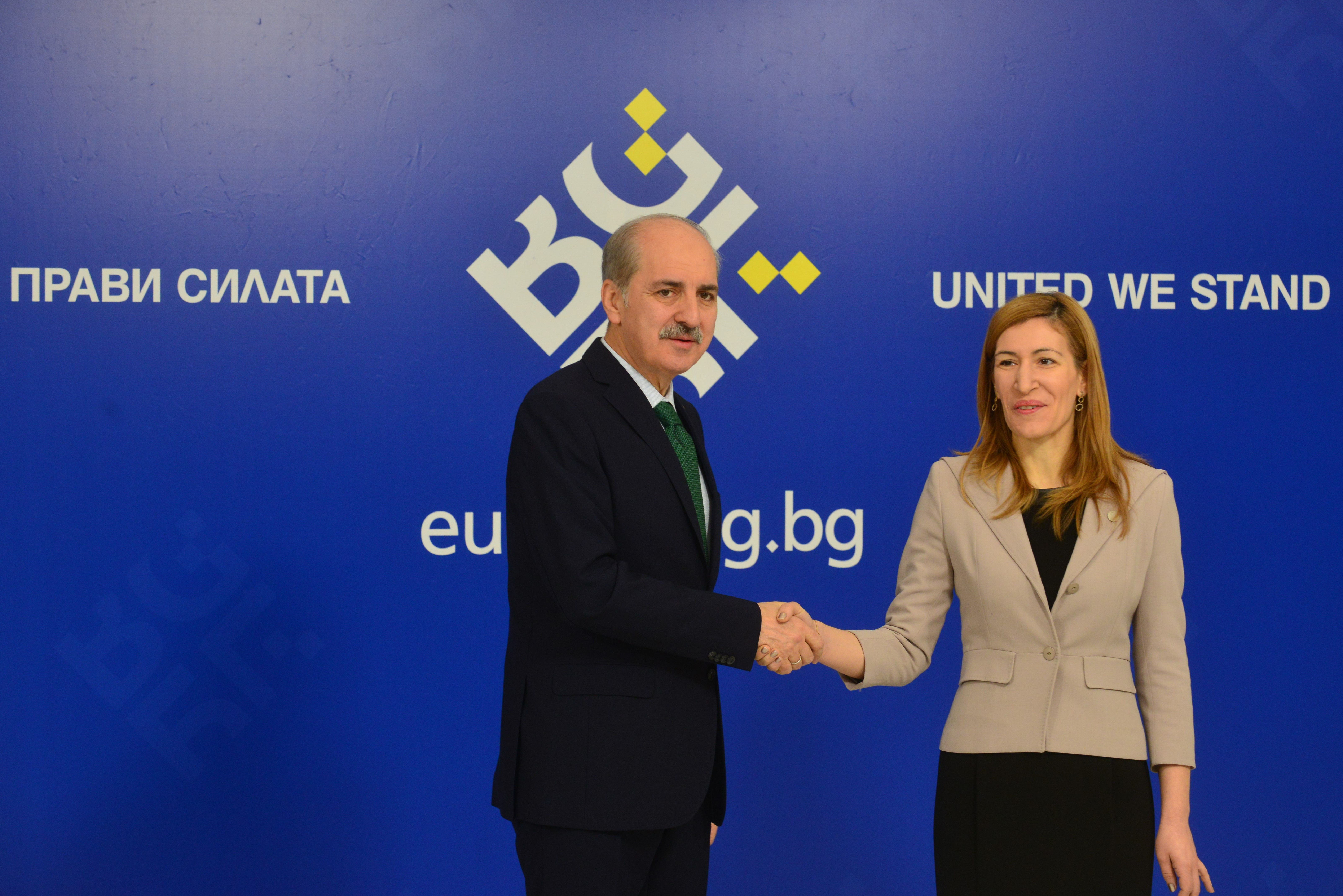 Numan Kurtulmuş, Minister of Culture and Tourism of the Republic of Turkey (left), Nikolina Angelkova, Minister of Tourism of the Republic of Bulgaria (right) Photo: Yordan Simeonov (EU2018BG)